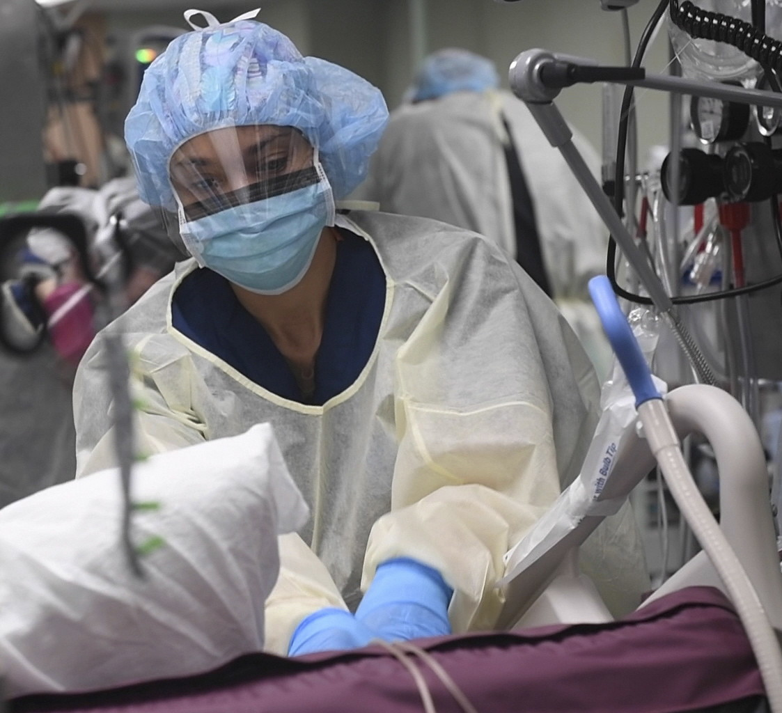 Lieutenant (junior grade) Natasha McClinton, a surgical nurse, prepares a patient for a procedure in the intensive care unit aboard the U.S. hospital ship USNS Comfort. The ship cares for critical and non-critical patients without regard to their COVID-19 status. Comfort is working with Javits New York Medical Station as an integrated system to relieve the New York City medical system, in support of U.S. Northern Command's Defense Support of Civil Authorities as a response to the COVID-19 pandemic.